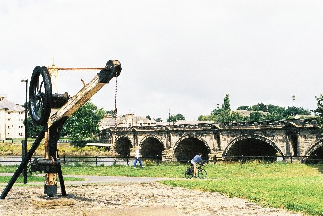 Photograph